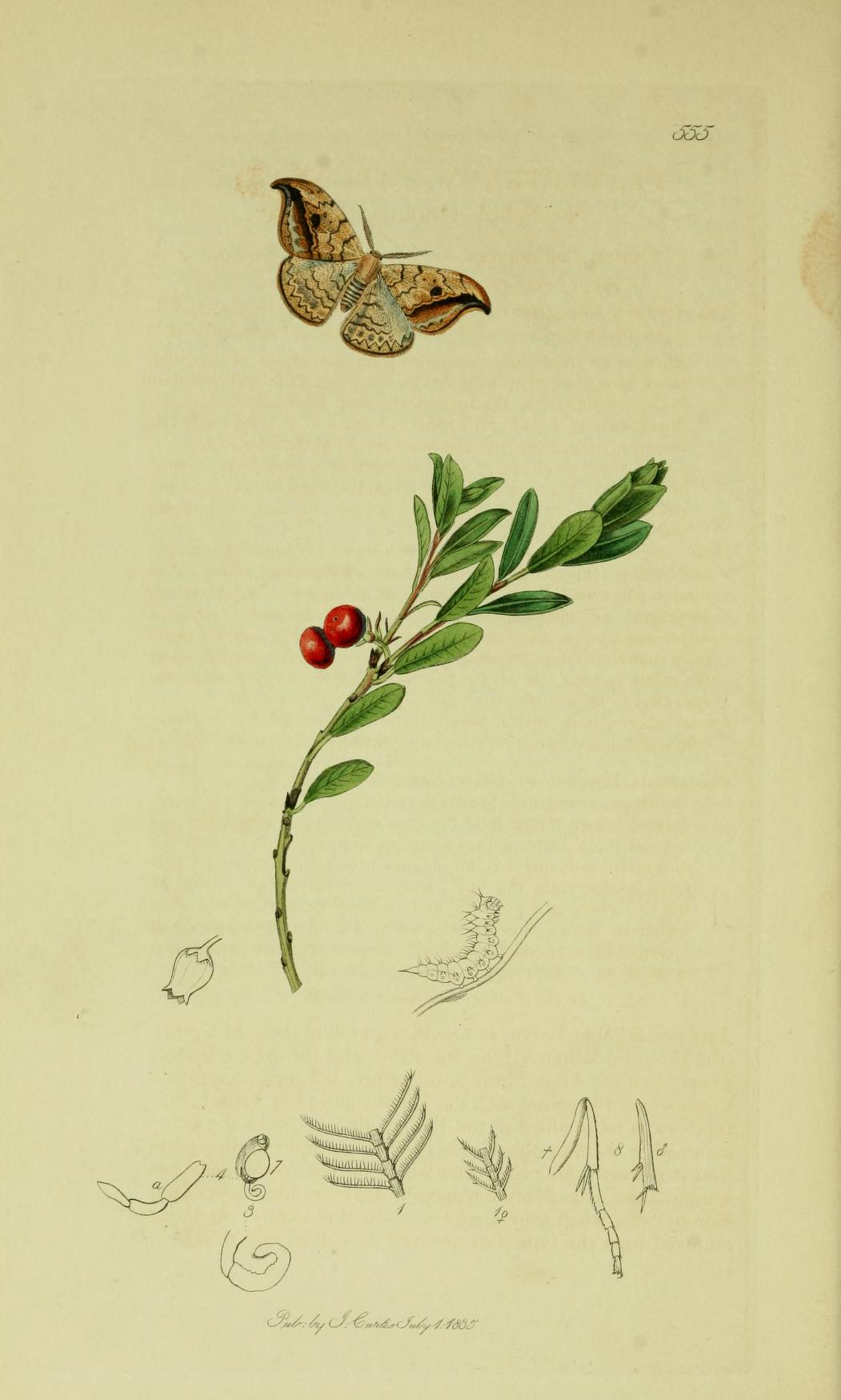 An illustration from British Entomology by John Curtis. Lepidoptera: Platypteryx falcataria or Drepana falcataria (Pebble Hook-tip).